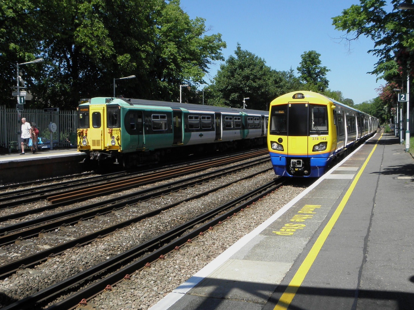 Southern class 455 unit 455821 calls at Sydenham with a service to London Bridge, while London Overground unit 378142 calls with a West Croydon service, on the first day of East London Line operations at the station.